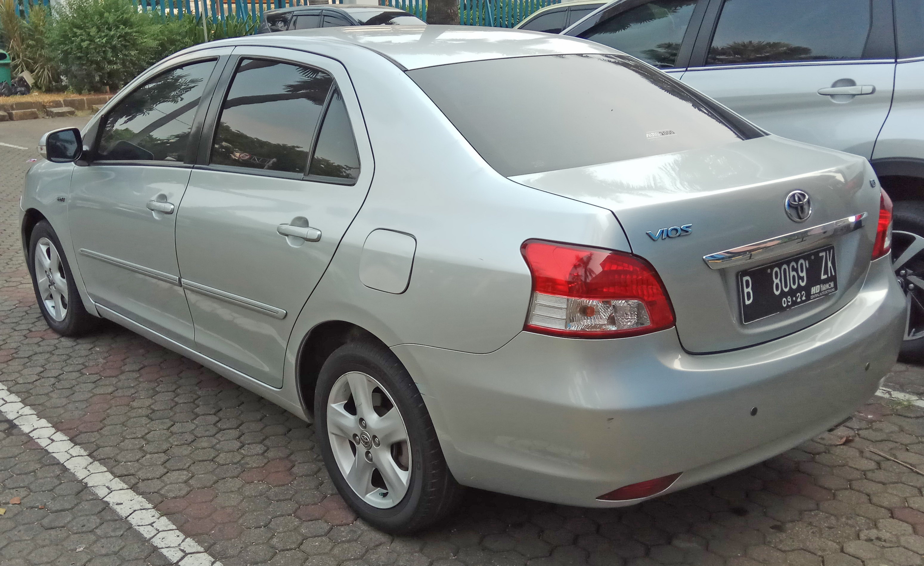 2007 Toyota Vios 1.5 G photographed in Sawah Besar, Central Jakarta, Indonesia.